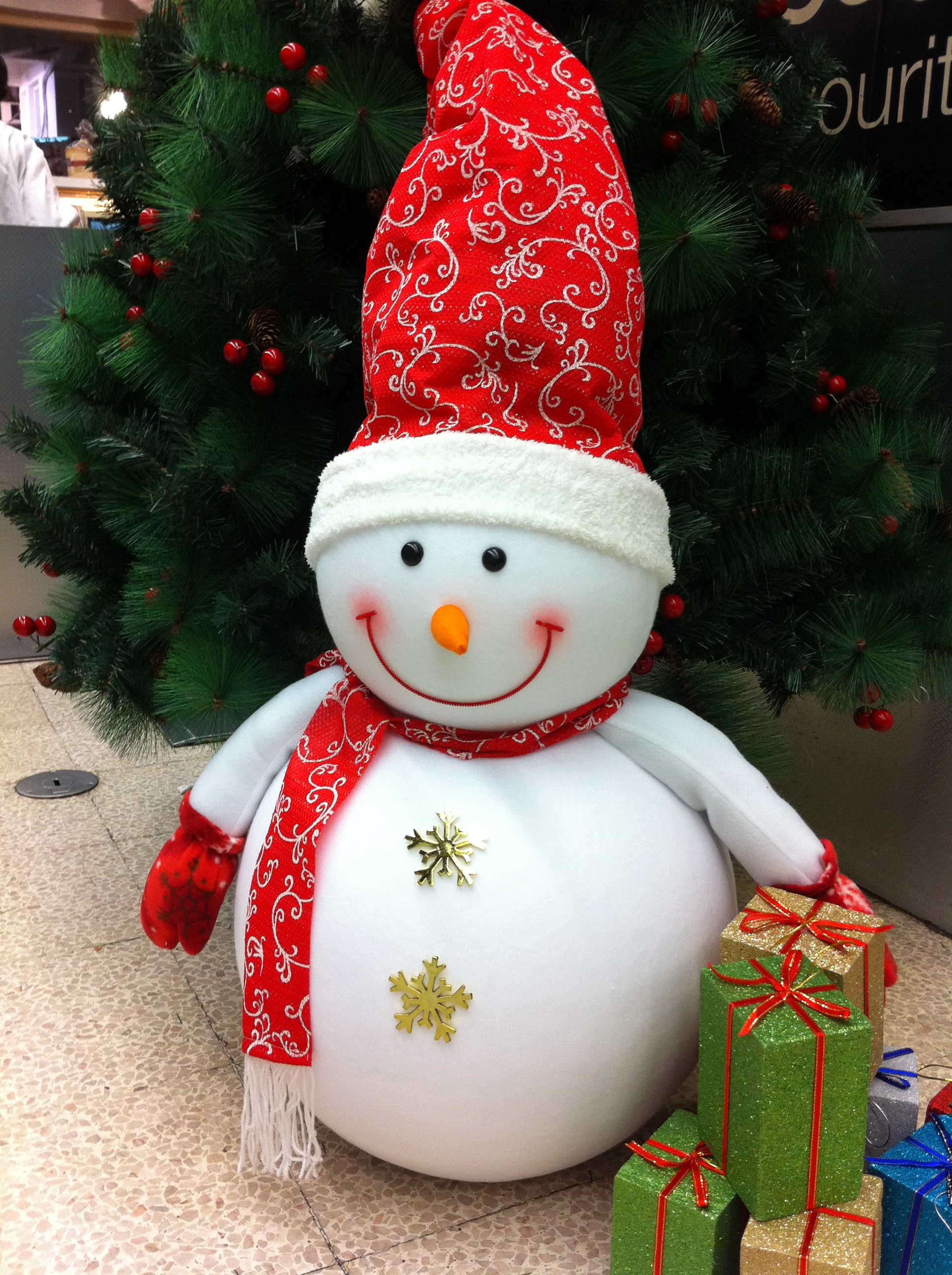 Hong Kong 2012 Christmas Snowman